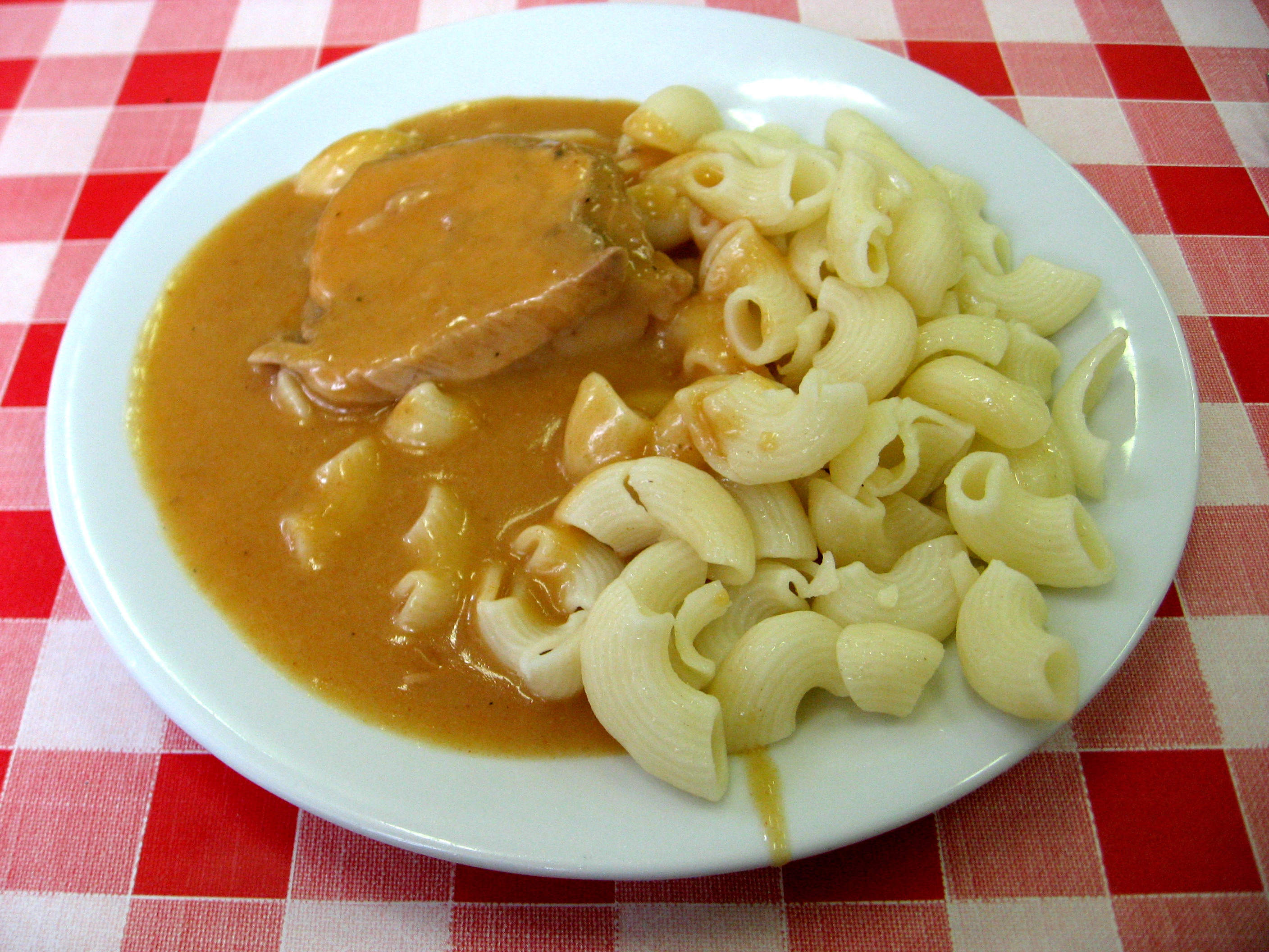 Pork, paprika sauce, pasta